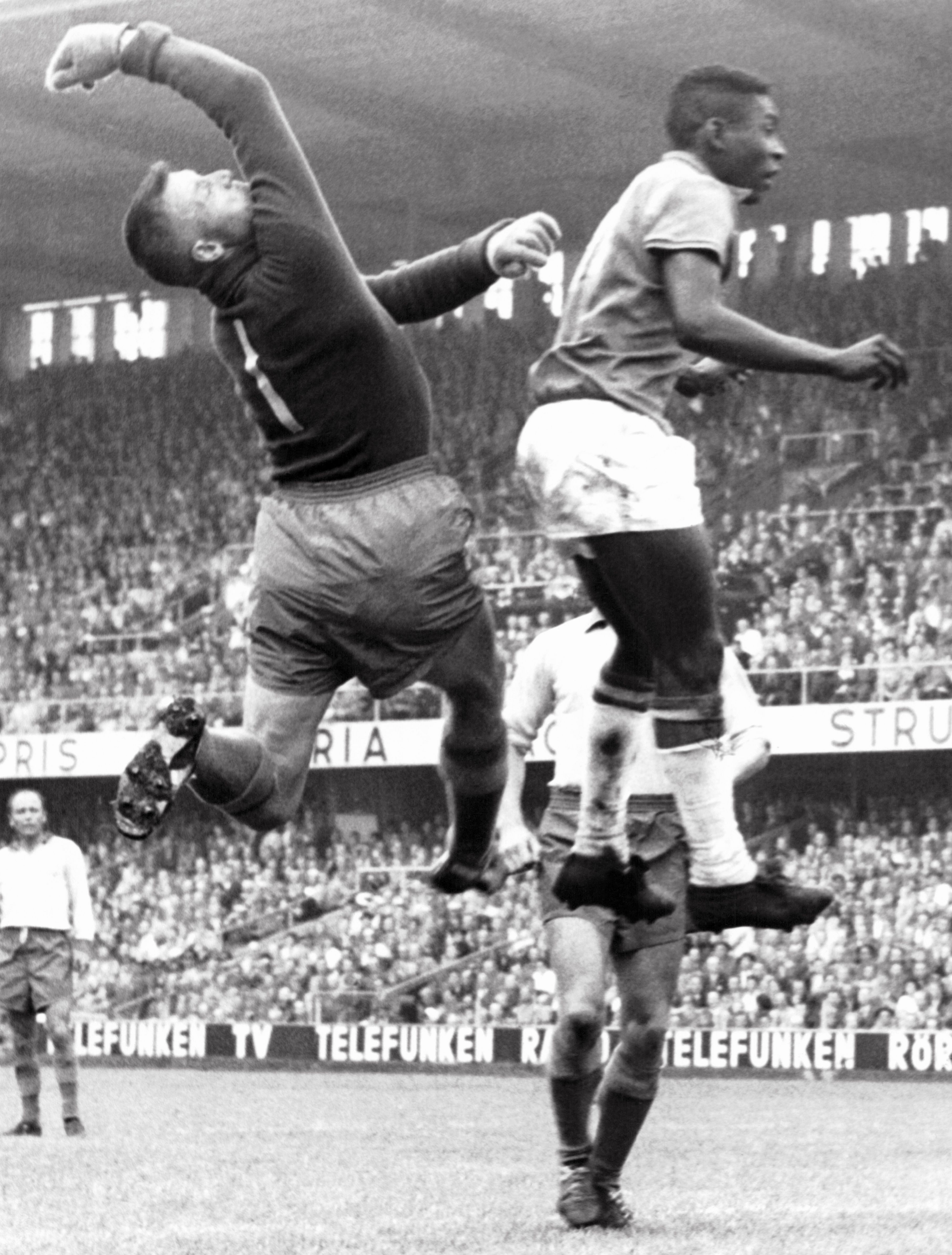 Pelé fighting for a ball against the Swedish goalkeeper Kalle Svensson during the 1958 World Cup final.